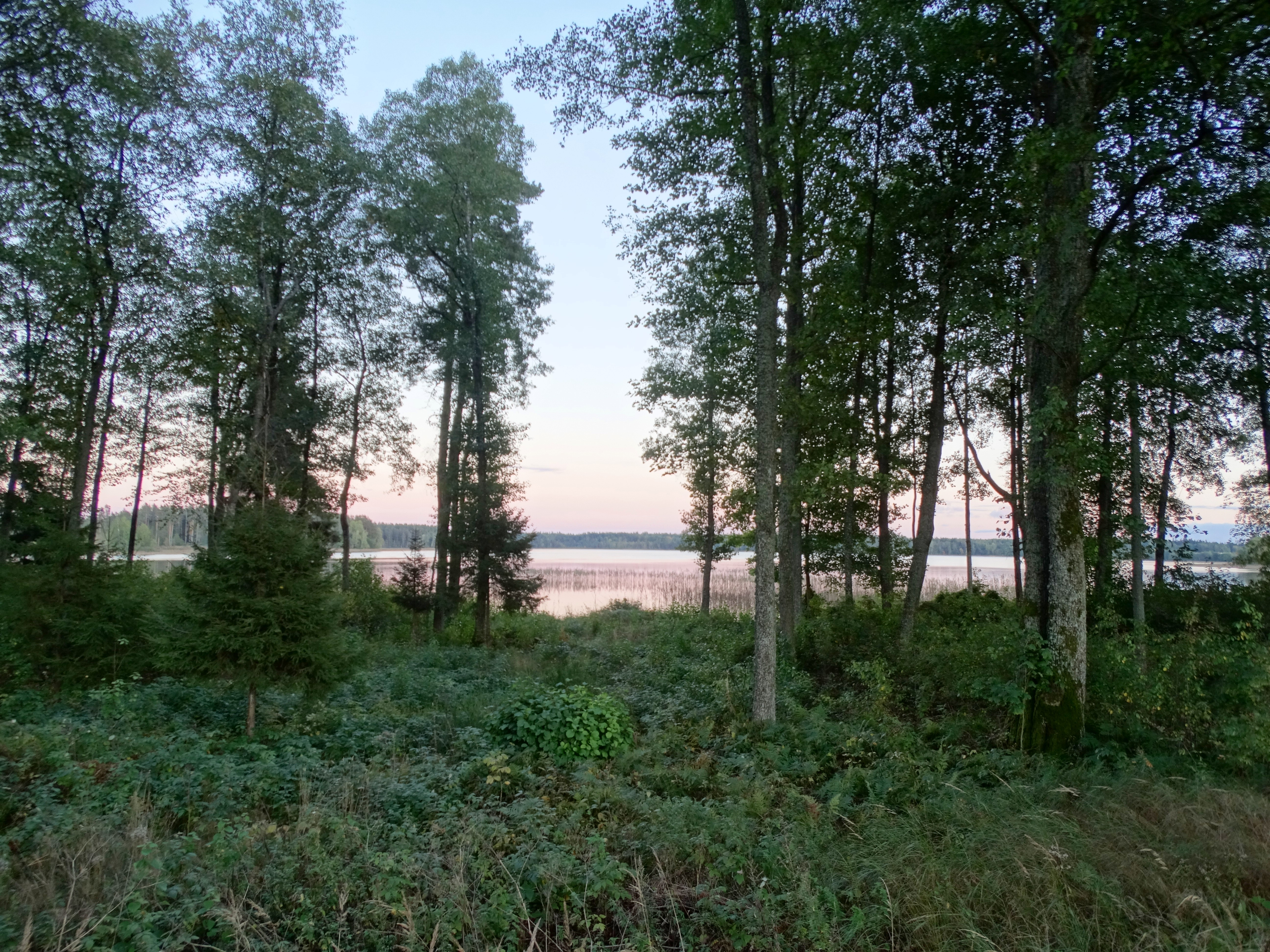 Ažvintis Lake in Švedriškė, Ignalina district, Lithuania